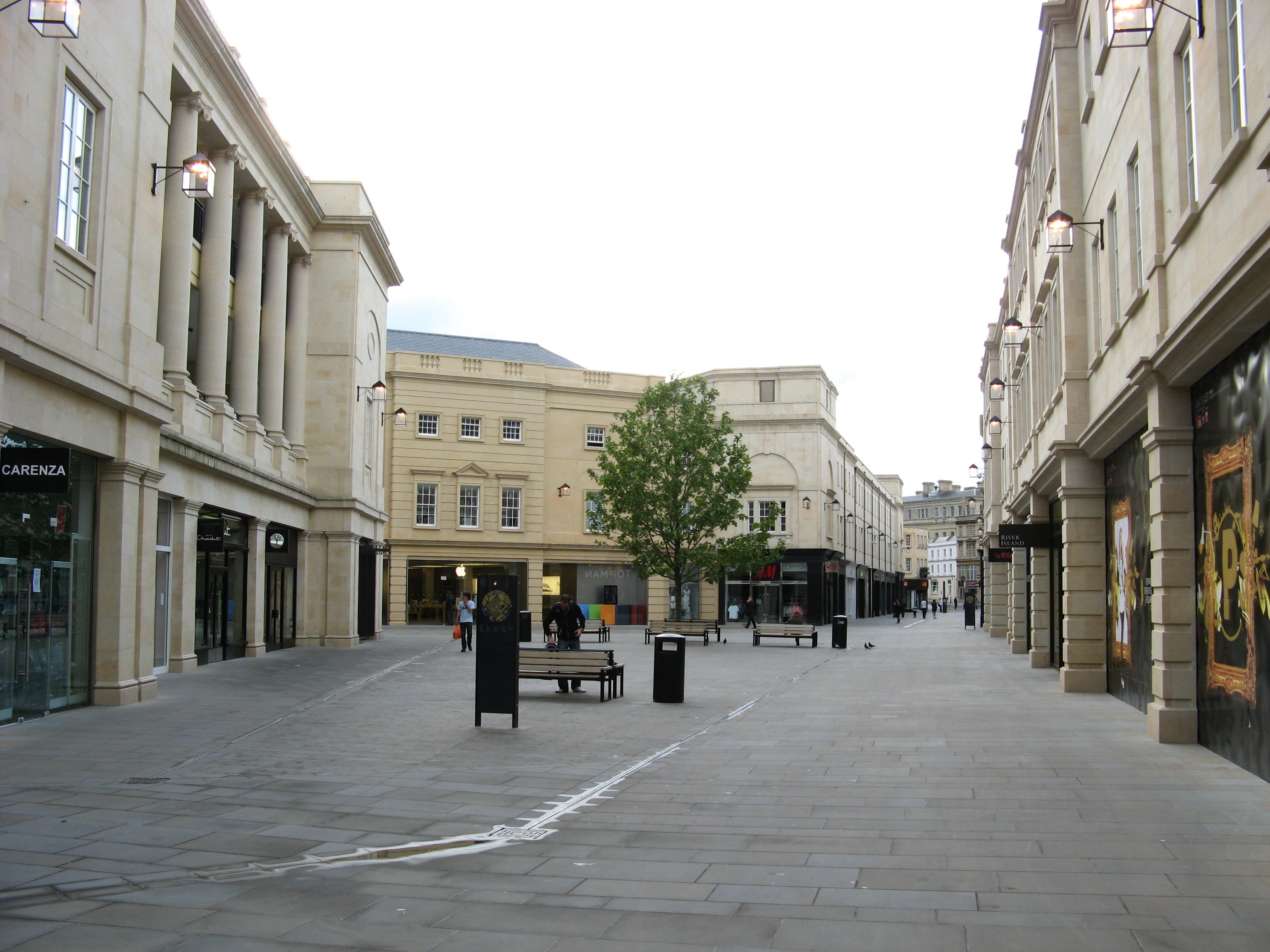 Southgate Place, Bath, from the eastern end. Southgate Place is the central plaza of the SouthGate, Bath, shopping development.